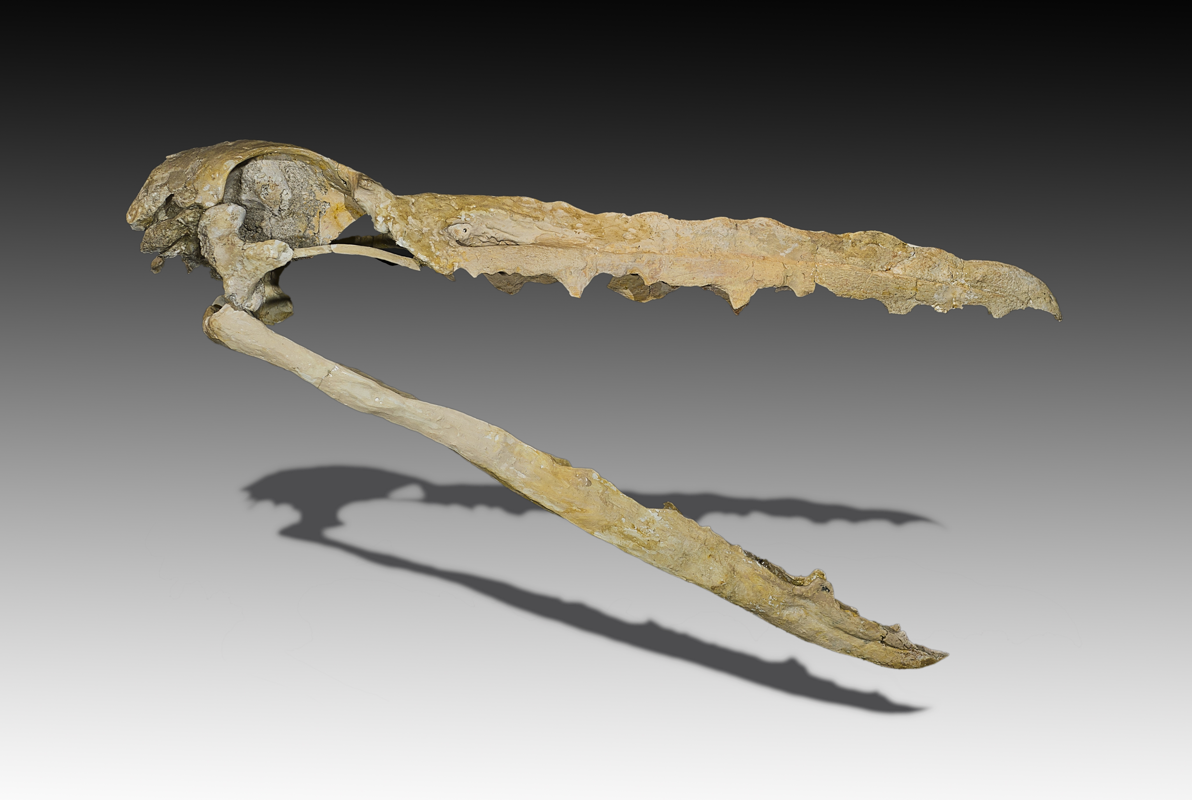 Pelagornis mauretanicus Skull. Stage: 2.5 Ma Gelasian Locality: deposits at Ahl al Oughlam, Morocco Size: 63 cm